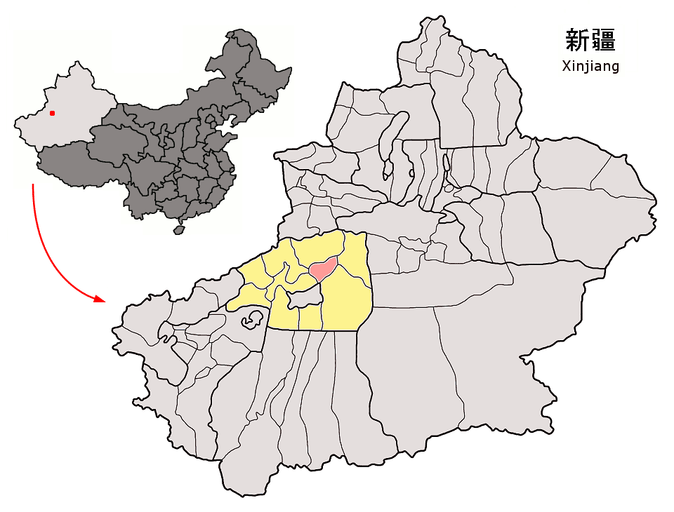 Location of Toksu County (pink) and Aksu Prefecture (yellow) within Xinjiang autonomous region of China Map drawn in september 2007 using various sources, mainly : Xinjiang Uygur autonomous region administrative regions GIS data: 1:1M, County level, 1990 Xinjiang Counties map from